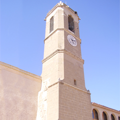 Bellfry of Sant Joan de Térmens - Centre Cultural Sant Joan